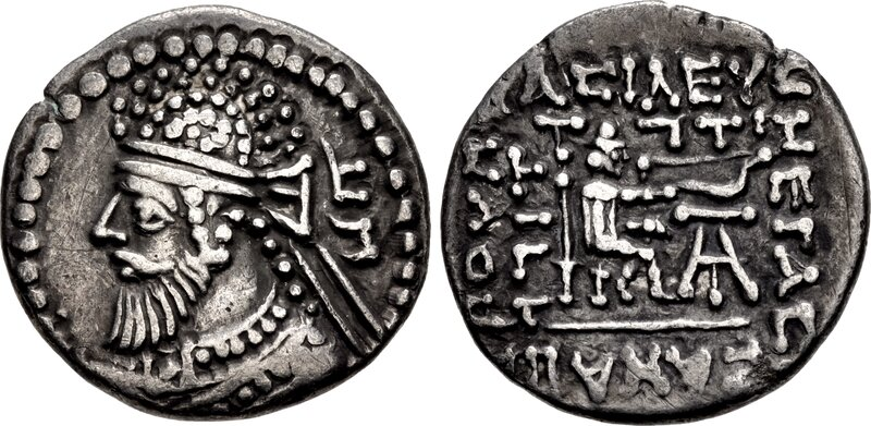 Coin of Sanabares, minted in Sakastan.